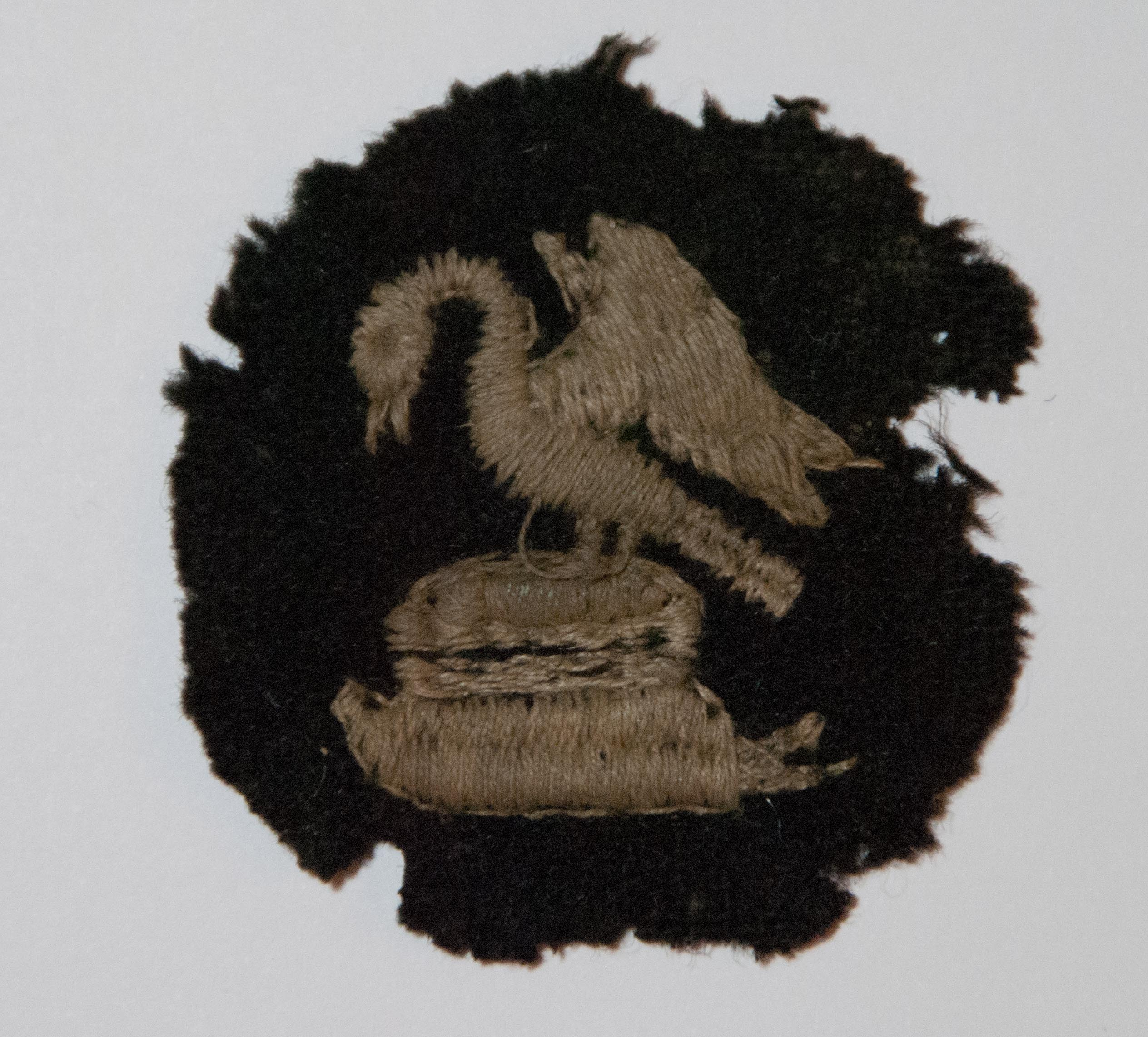 Division sign of the British 30th Division in World War 1